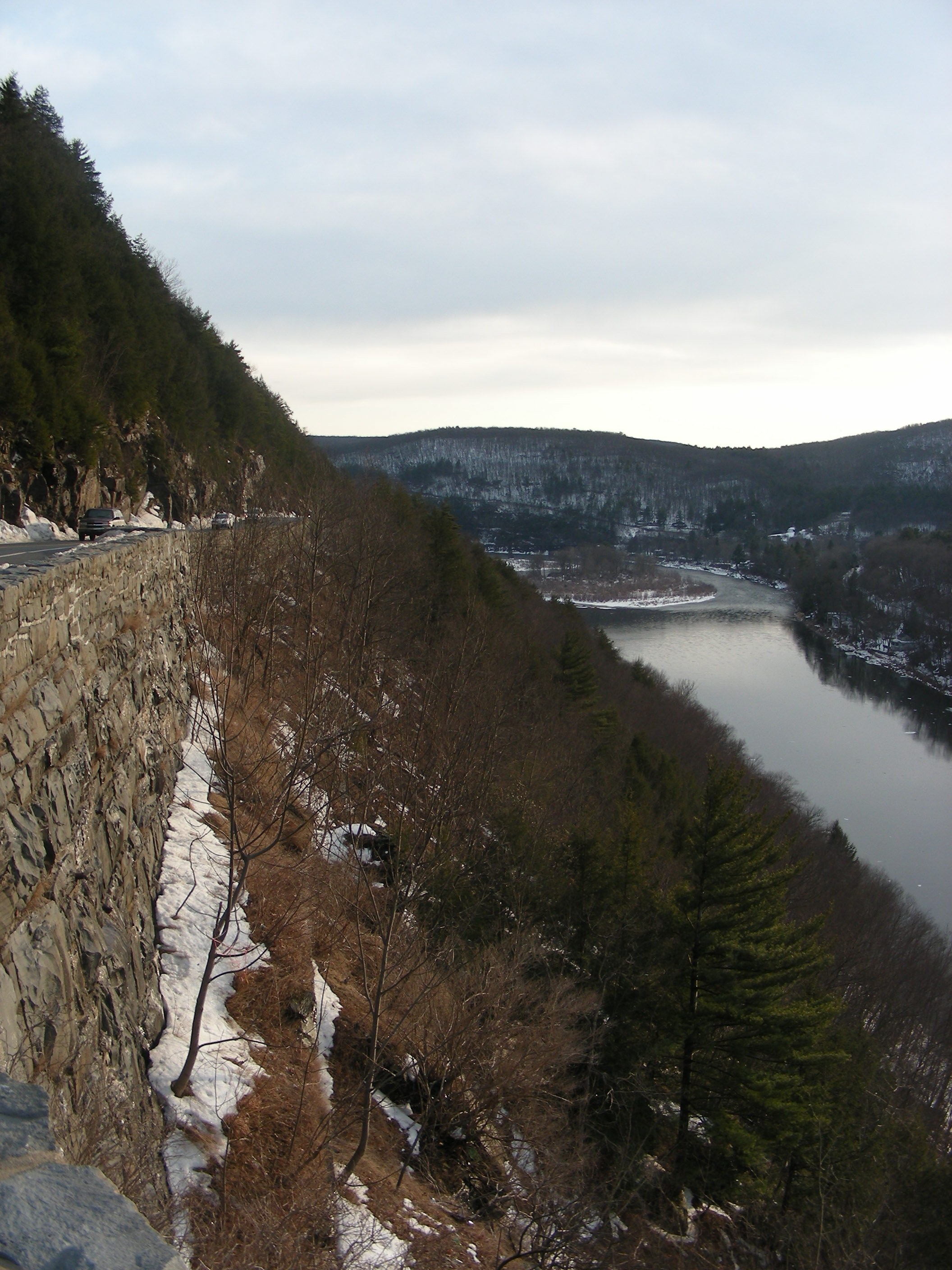 Southbound view of the Delaware River from an overlook on New York State Route 97(New York State Bicycle Route 17) in Hawk's Nest.